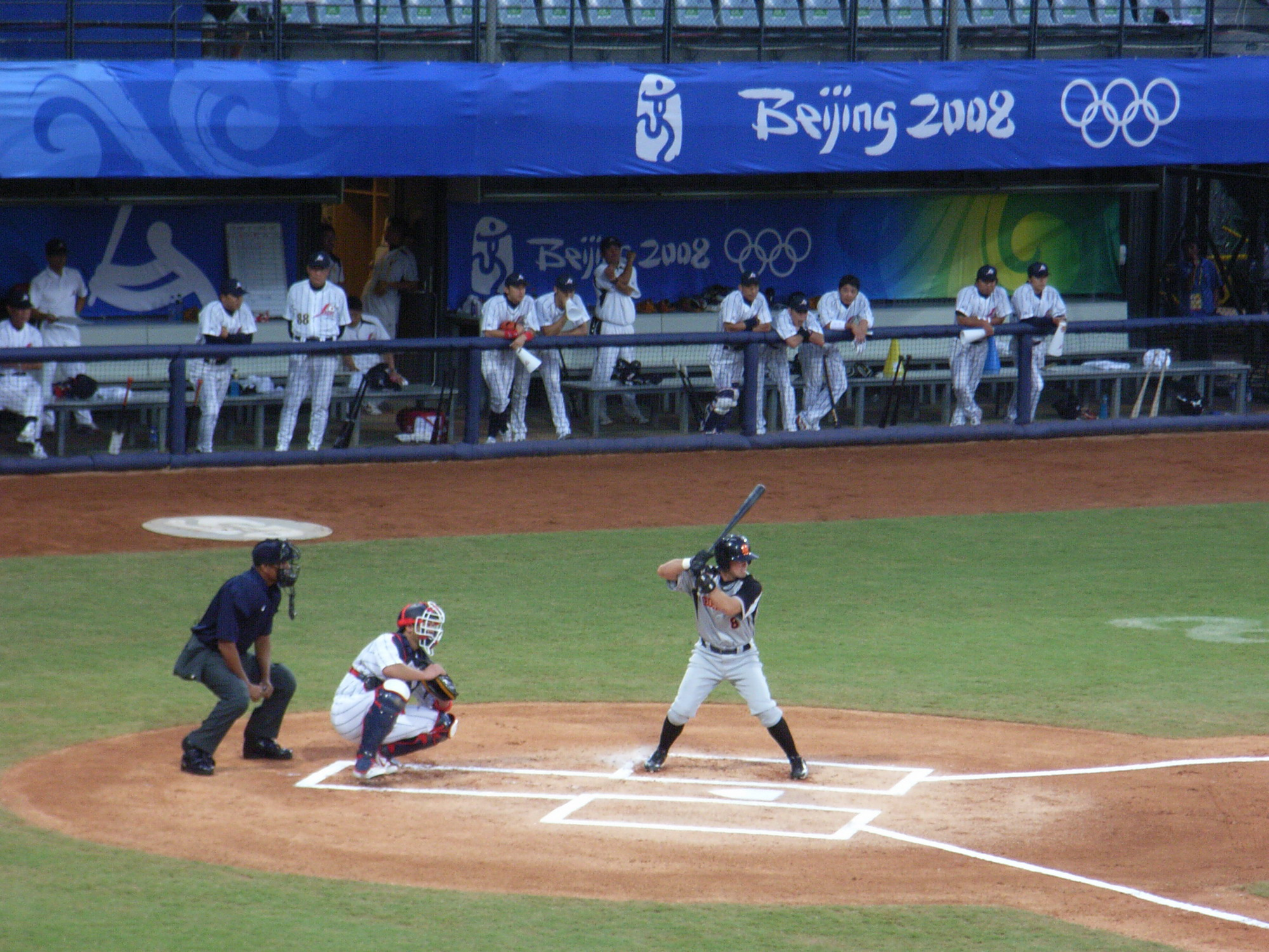 Baseball game in 2008 Olympic Games Japan Vs Holland